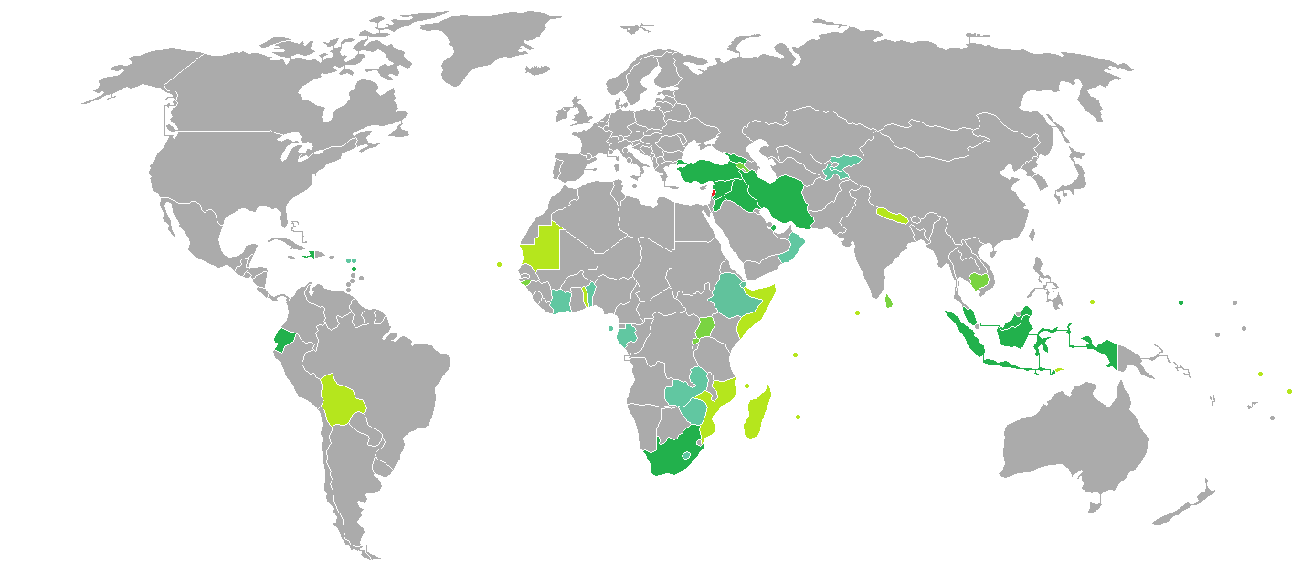 DEC_18 update